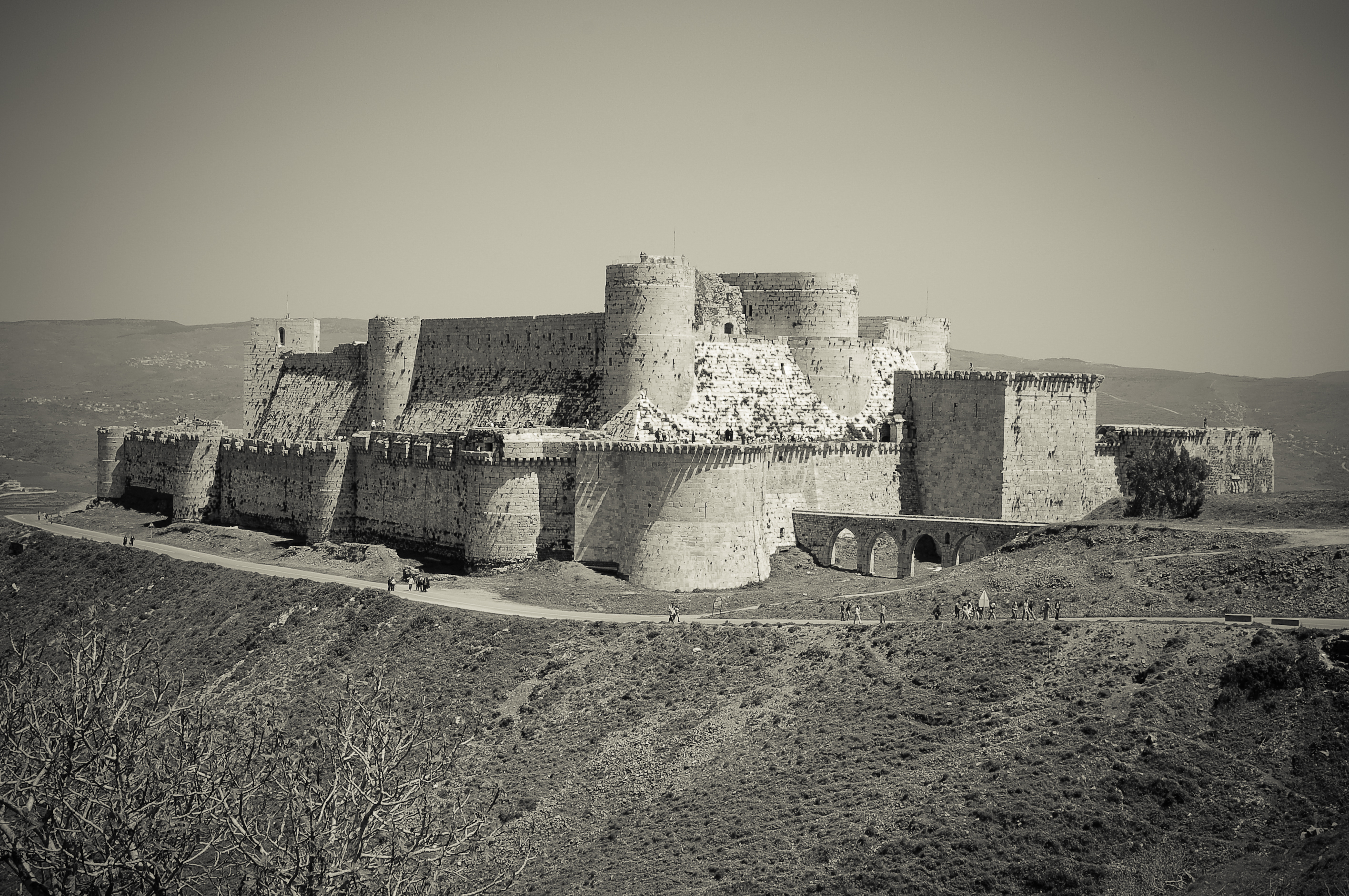 The Crac des Chevaliers near Homs in Syria was built by the Hospitaller Order of Saint John of Jerusalem from 1142 to 1271. With further construction by the Mamluks in the late 13th century, it ranks among the best-preserved examples of the Crusader castles.